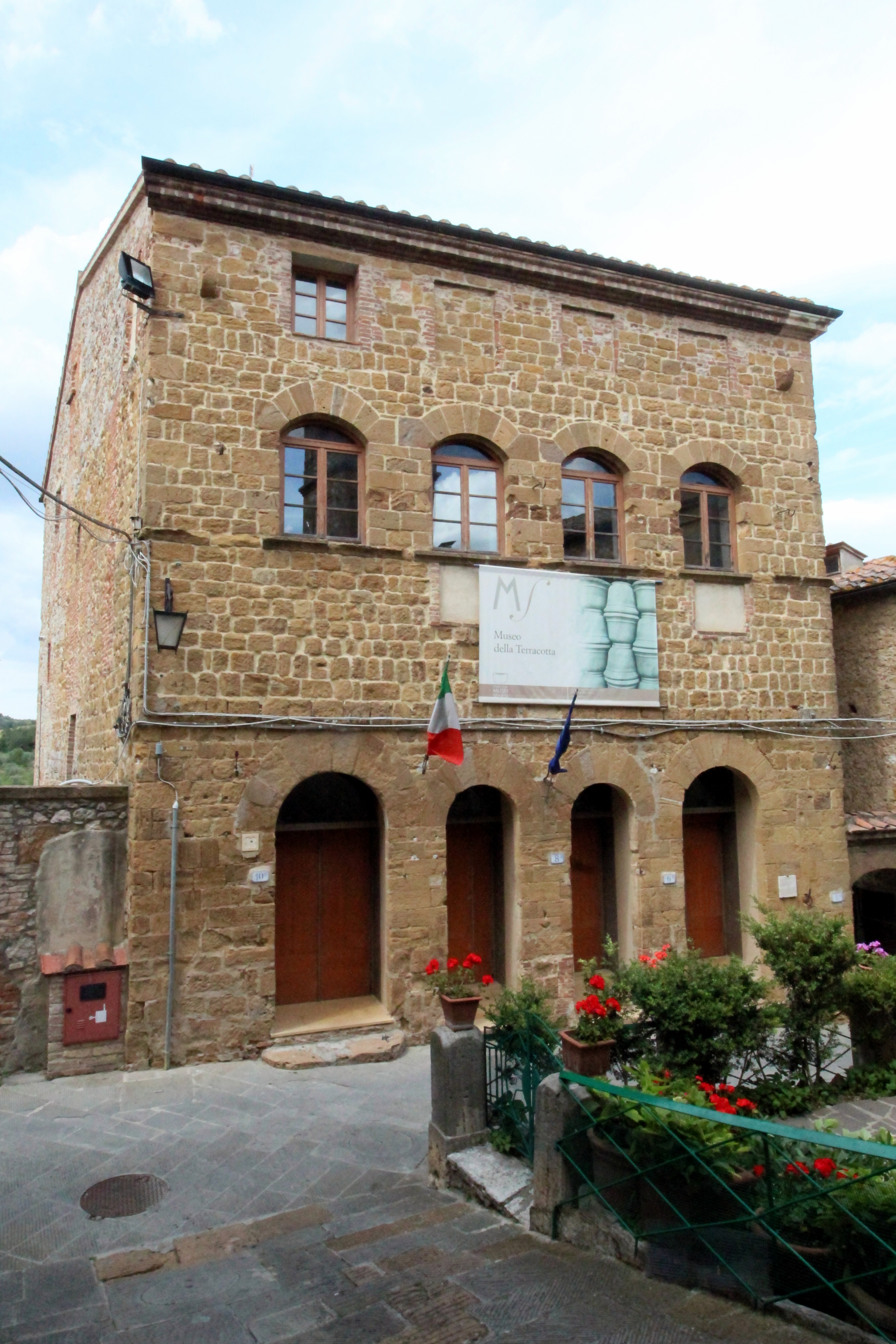 Ancient Palazzo Pretorio, contains today the Museum Museo della Terracotto, Petroio, hamlet of Trequanda, Province of Siena, Tuscany